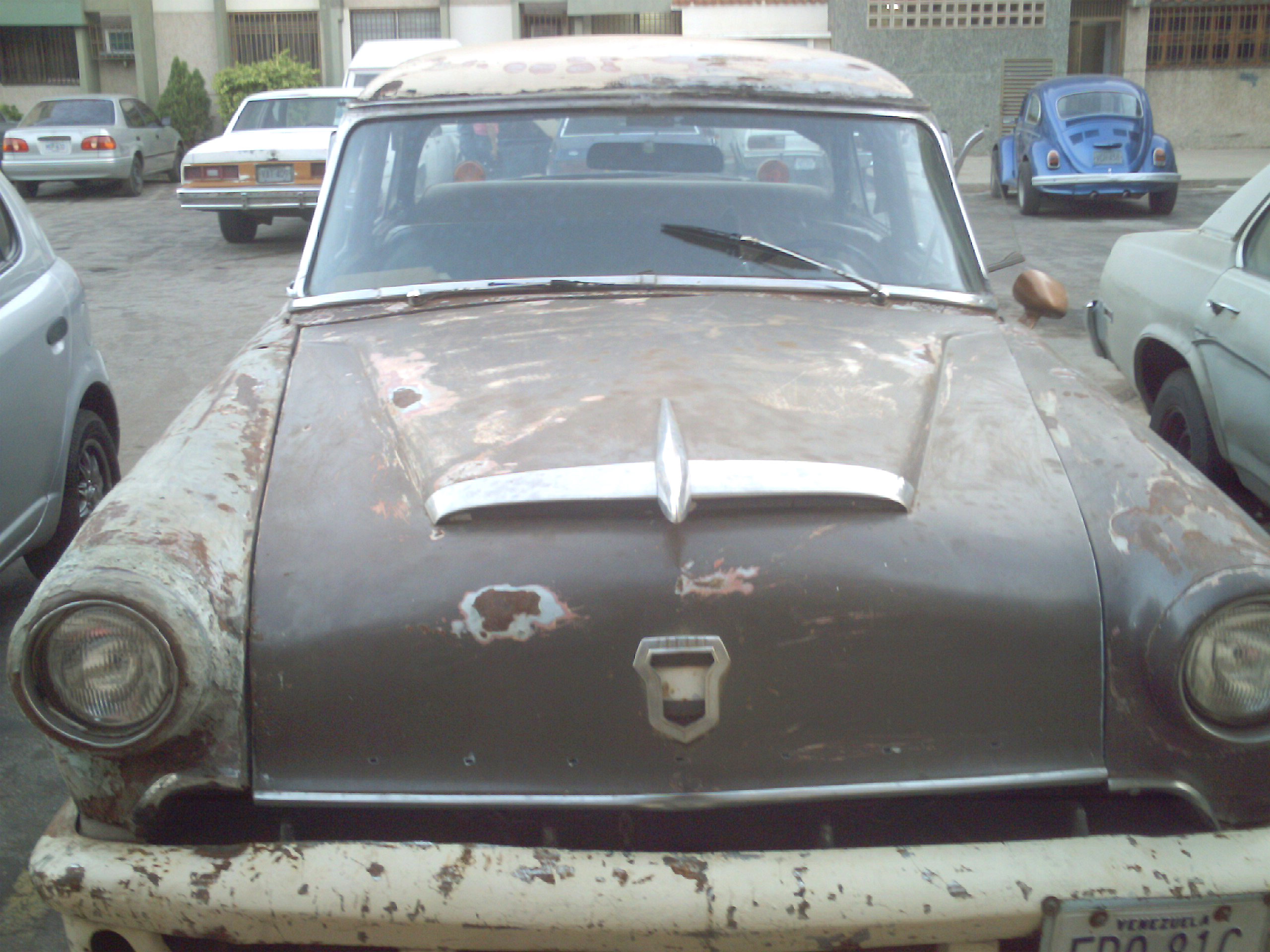 Old broken down car. Seems a 1953 Mercury Custom; see talk page.